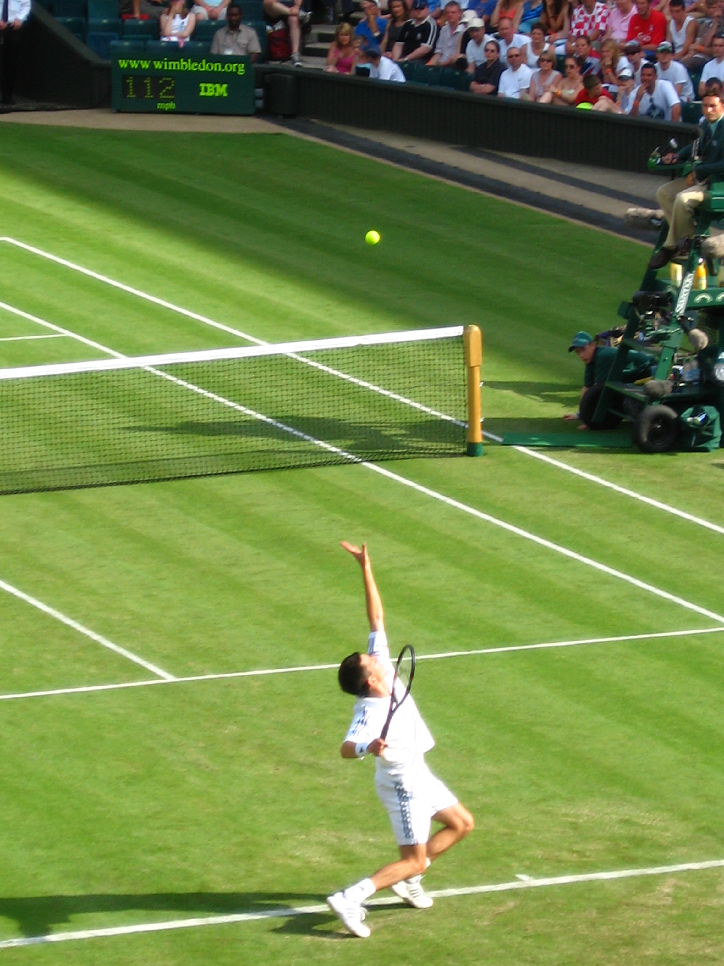 Timothy "Tim" Henman, an English tennis player. Playing at Wimbledon.